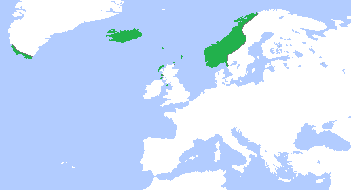 Locator map of the Kingdom of Norway, c. 1265. (Partially based on Grunntrekk i norsk historie - Fra vikingtid til våre dager (2007))